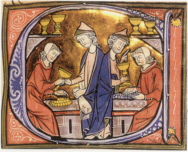 Picture of Jewish lenders in the Vidal Mayor codex